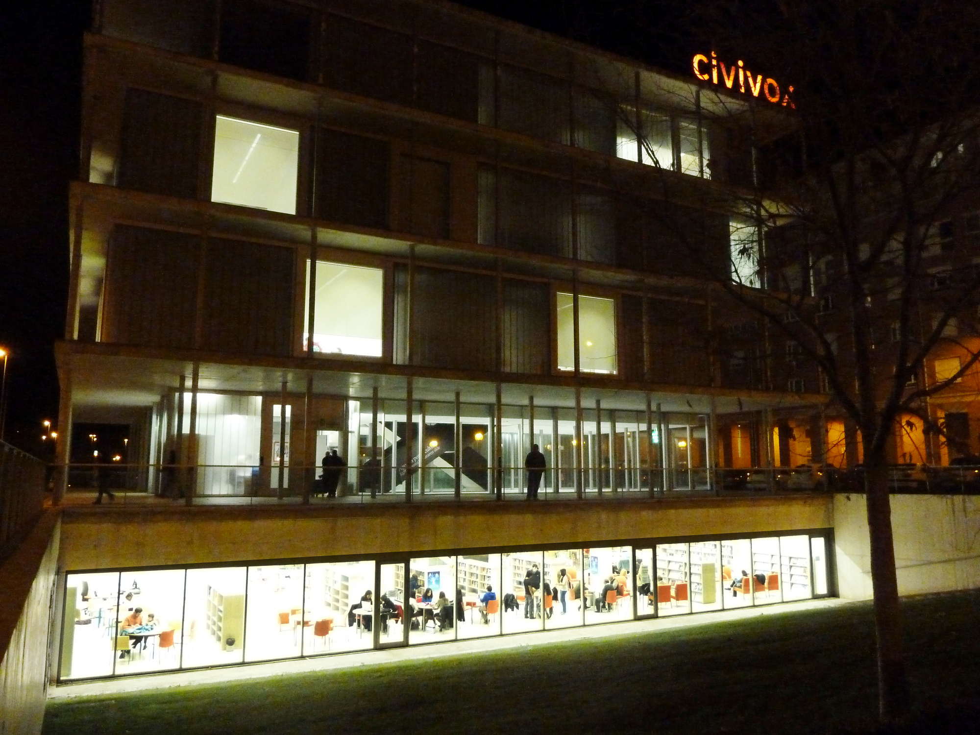 Public Library of San Jorge, a neighborhood of Pamplona/Iruñea. It was created in 1980, which was placed in the Public School San Jorge, to move in 2006 to its current hubicacion: Dr. Gortari Street 2. It is integrated into the Library Service of the Department of Culture and Tourism of the Government of Navarre. Also, the Pamplona City Council is also involved in its management through a collaboration agreement.